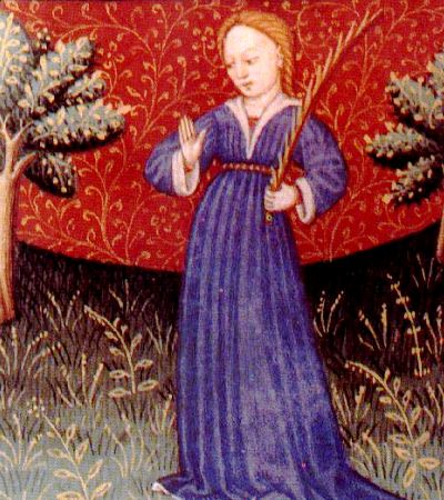 Virgo symbol, c. 1440-1450 Book of Hours, the Fastolf Master, Bodleian Library, Oxford C.160. MS. Auct. D. inf.2, 11, fol 8r